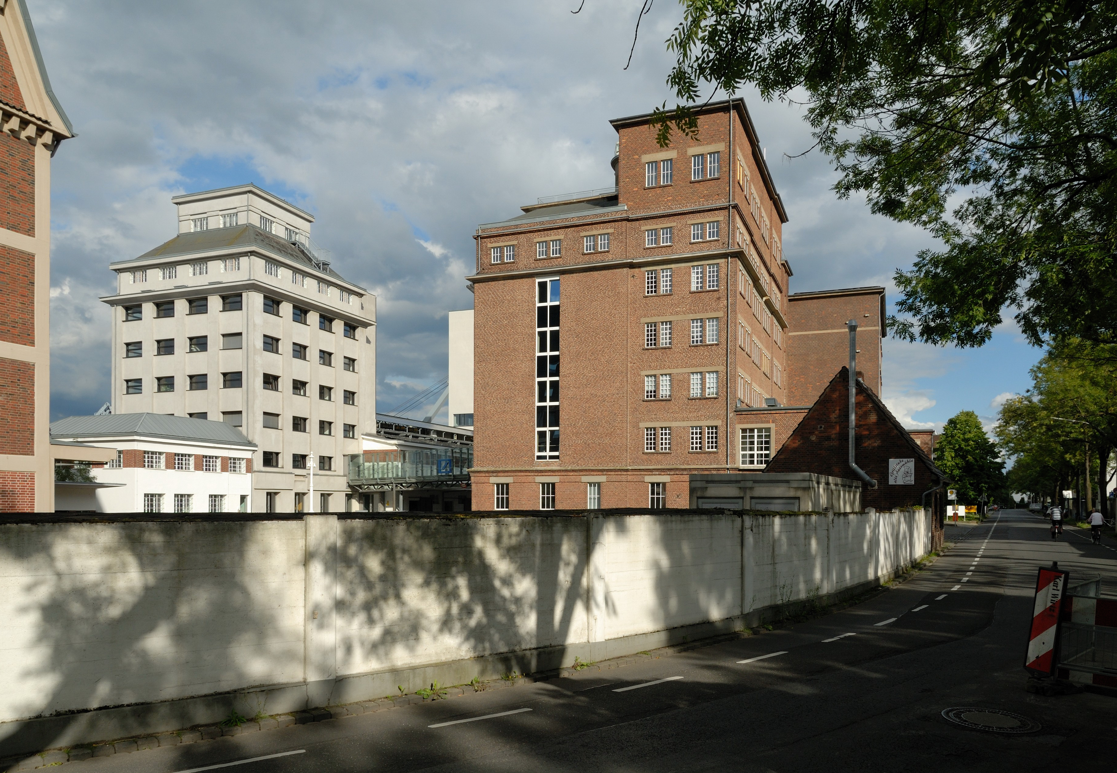 Auermühle, a landmarked area next to the port of Bonn. The buildings (grist mill and granary) were erected between 1923 and 1952 and are now used as office buildings.